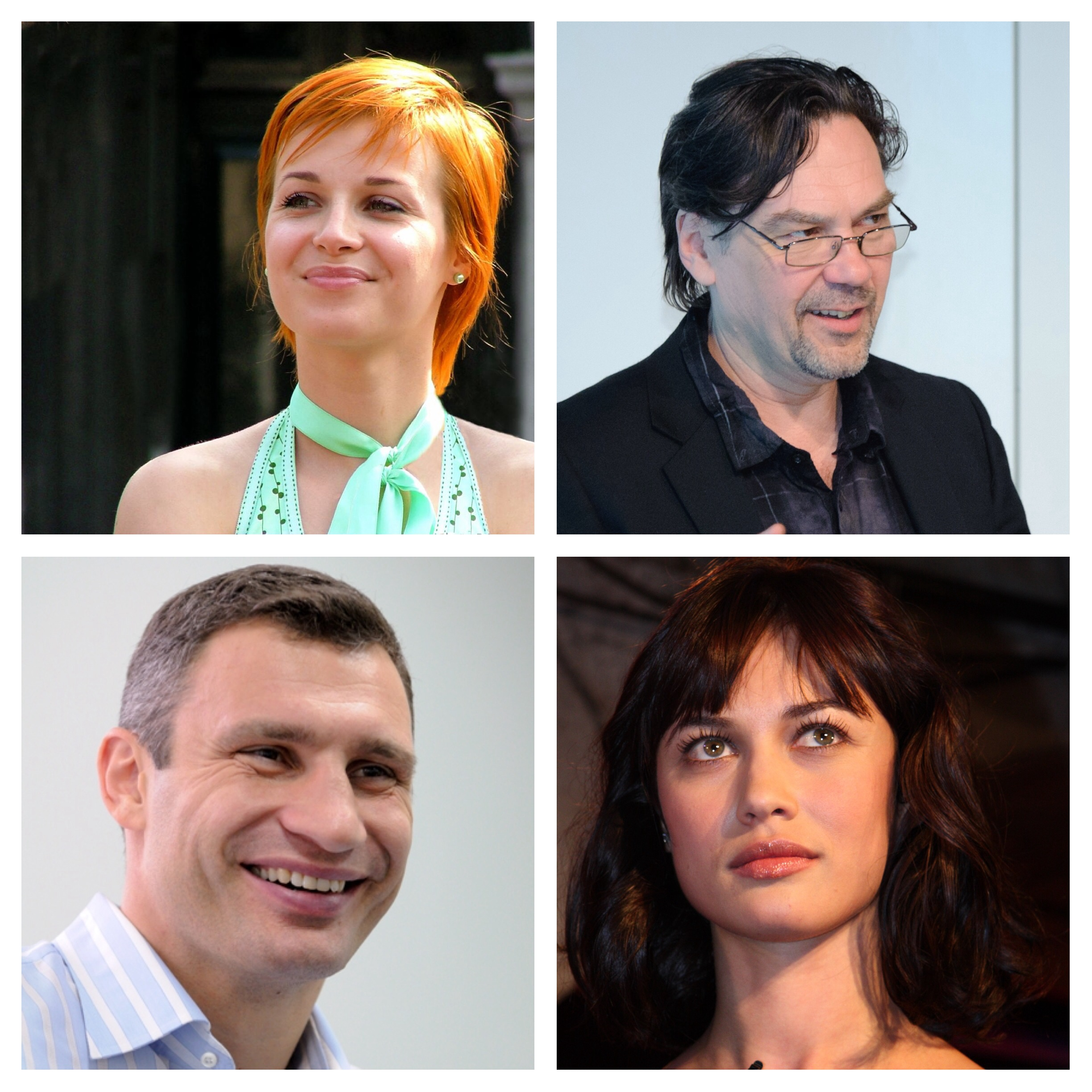 People on the photo: Victoria Koblenko (Dutch actress), Yuri Andrukhovych (writer), Vitali Klitschko (professional boxer), Olga Kurylenko (American actress).